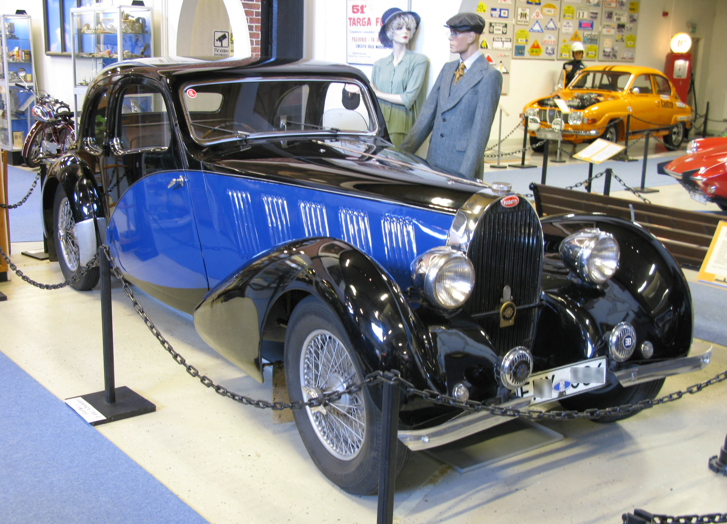 1936 Bugatti Type 57 with Graber bodywork.Location: Bil & Teknikhistoriska Samlingarna i Köping